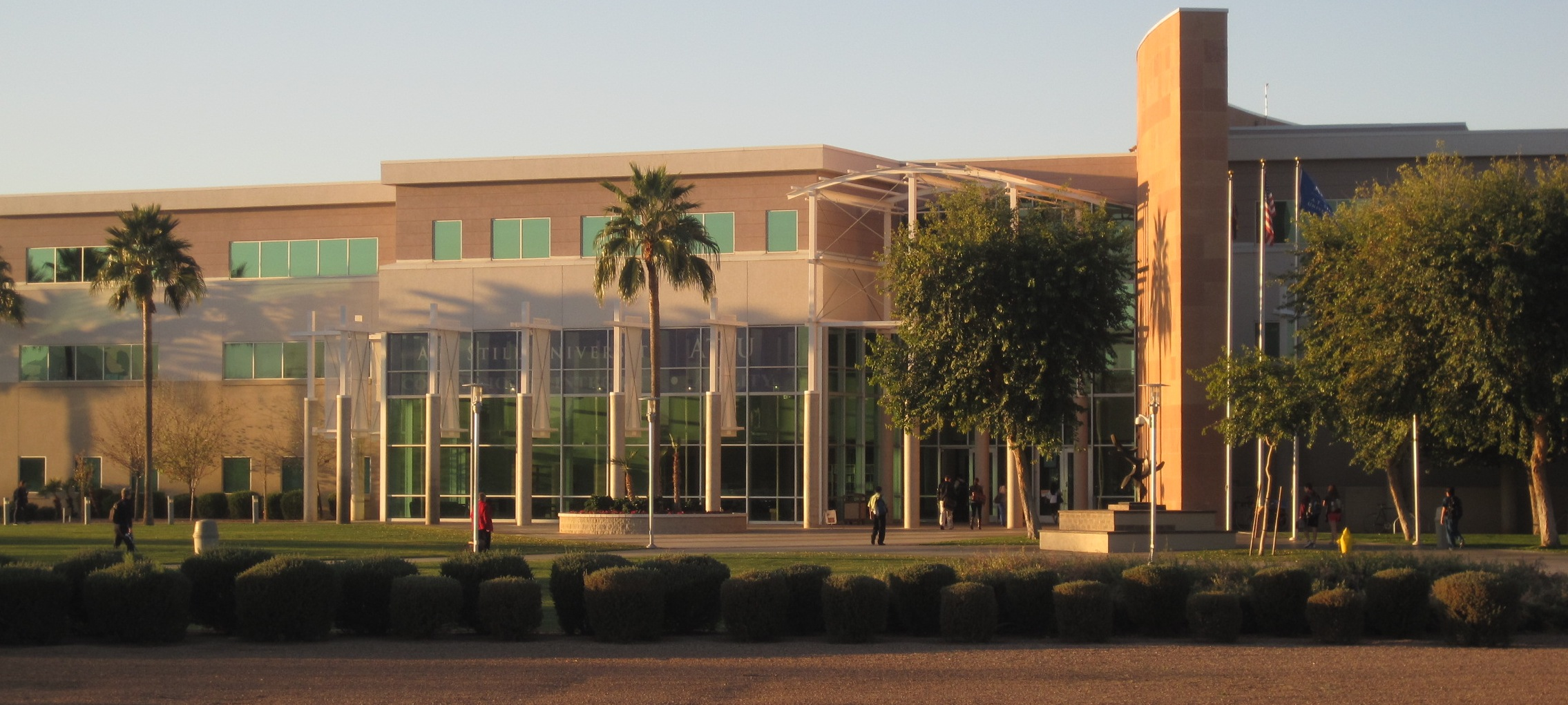 Photo taken of SOMA building in February 2012